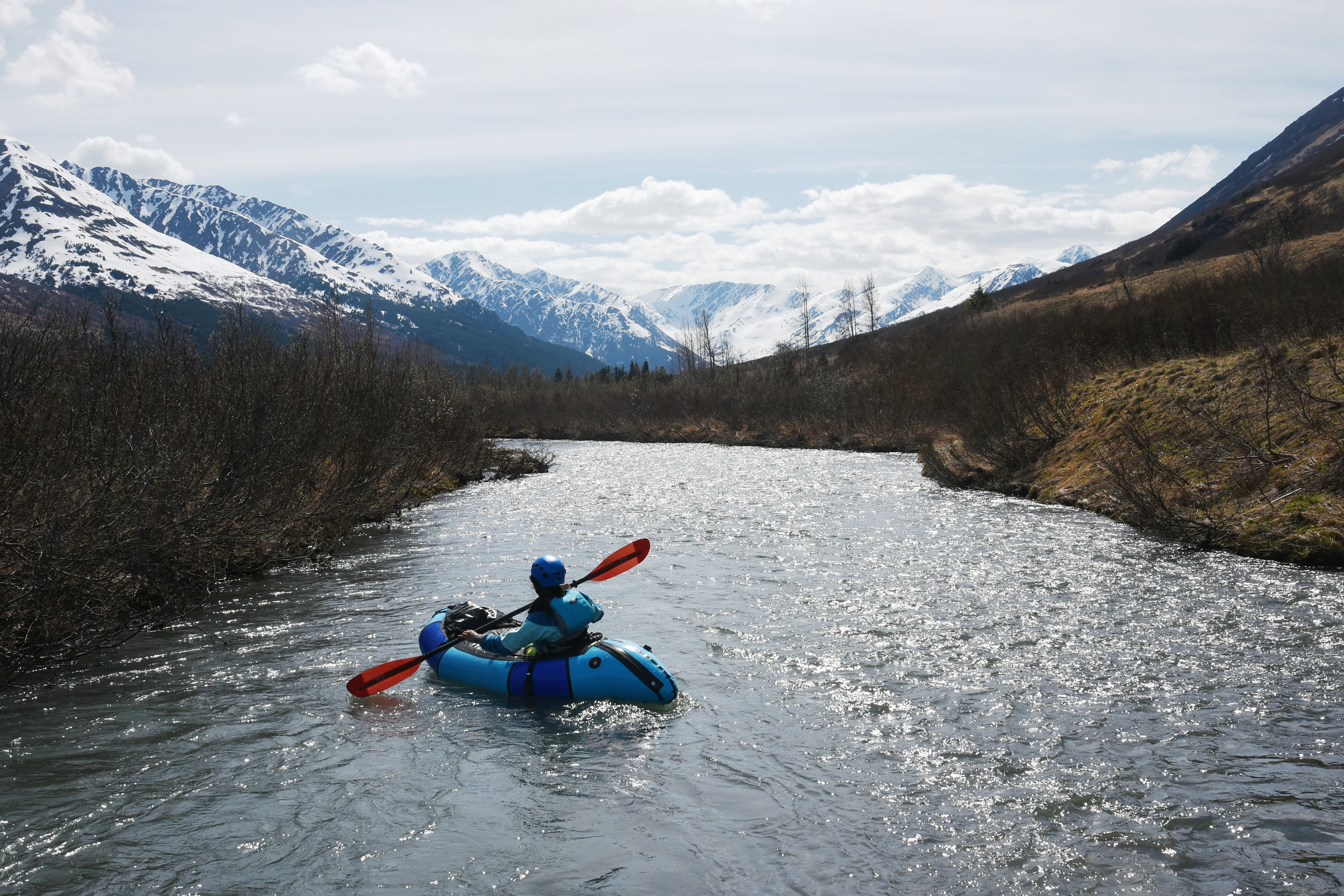 Mirna Estra packrafting Granite Creek, in the Kenai Mountains of Alaska.